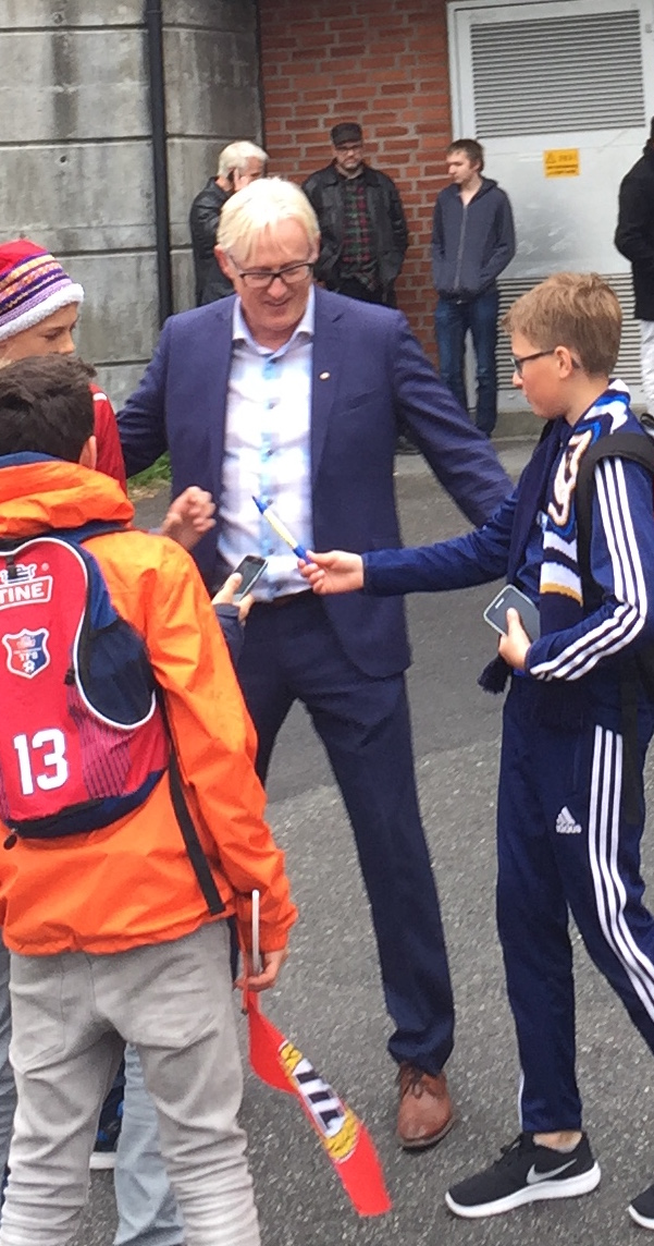 Tromsø IL coach Bård Flovik signing autographs after a match